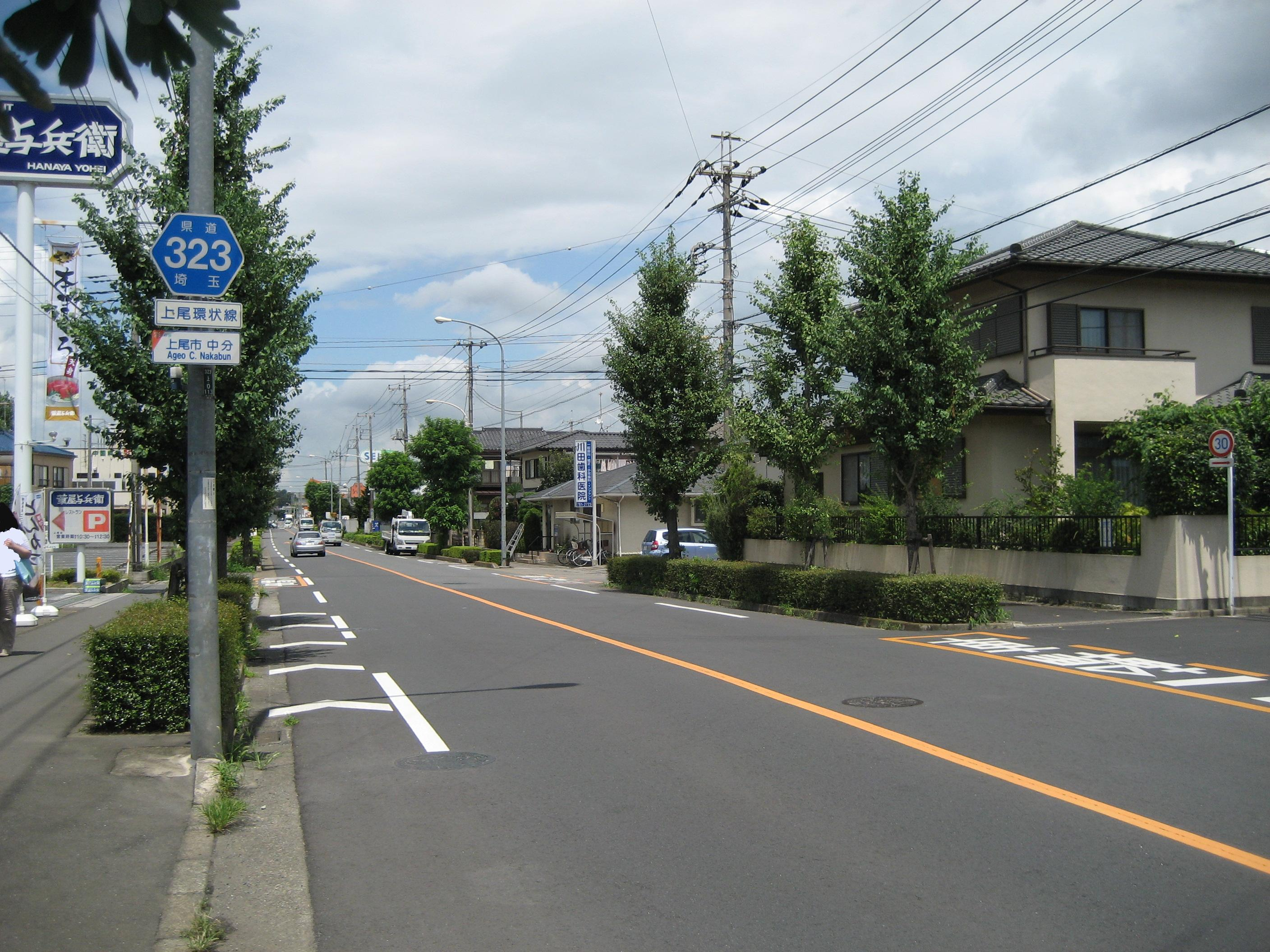 The Saitama Prefectural Road Route 323 in Ageo City